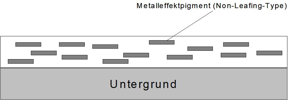 It is shown how metal effect pigment (non leafing grade) are oriented in the final coating after hardening.